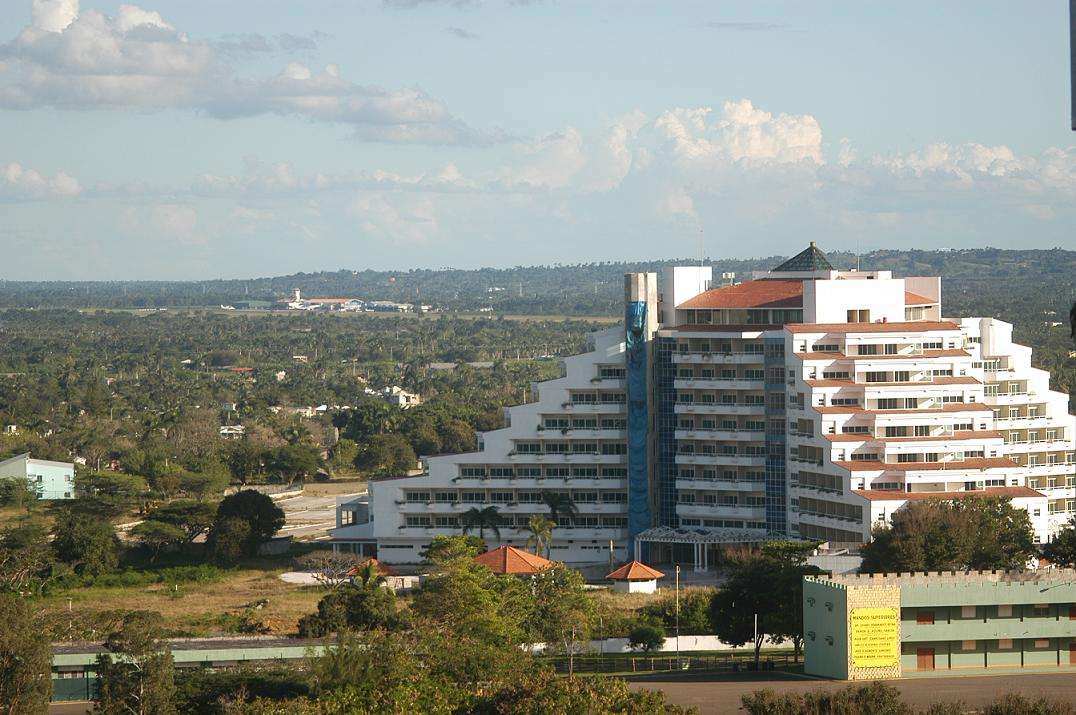 The biggest Hotel in the Cibao Region located in Santiago. (My own work)